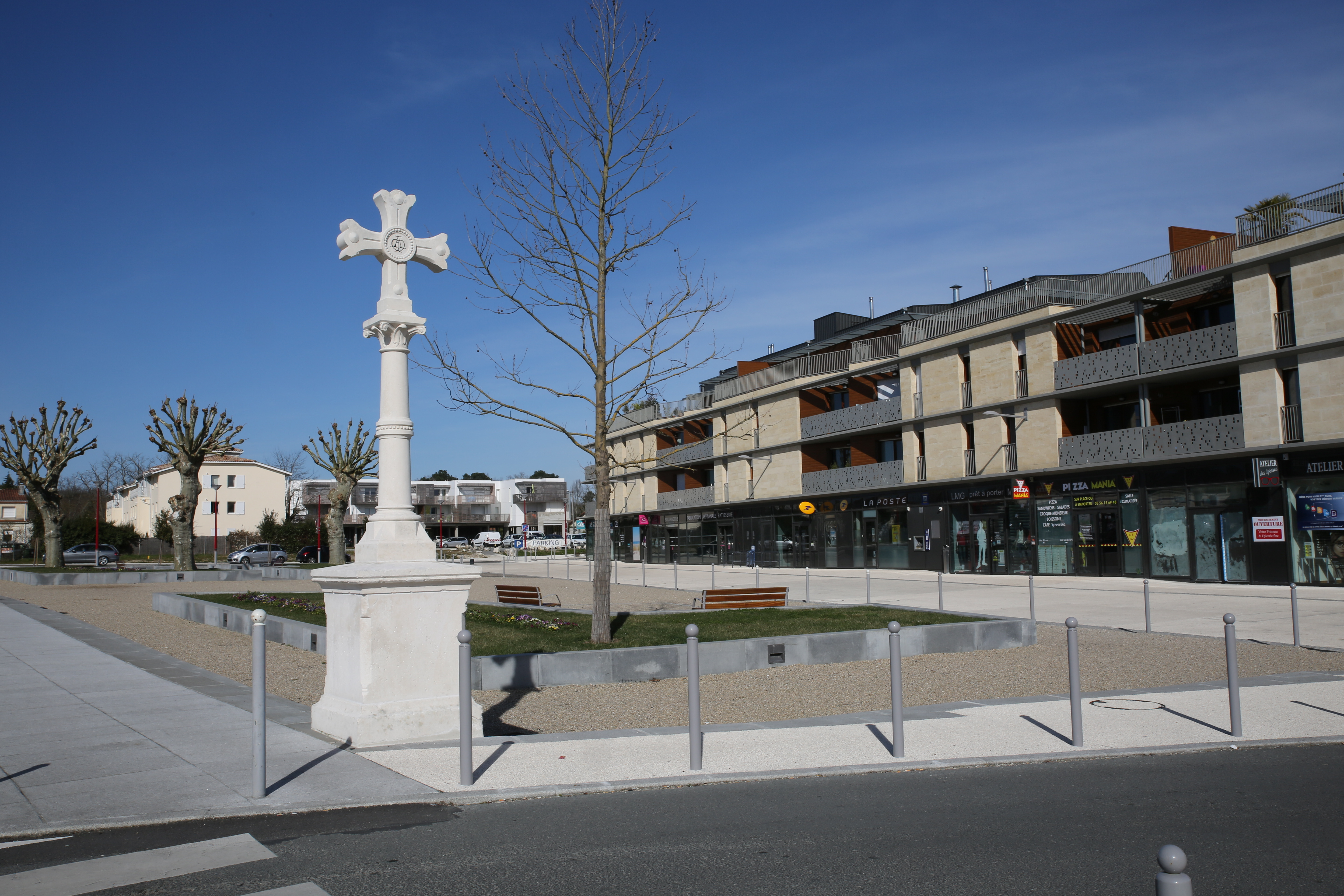 Croix du Taillan